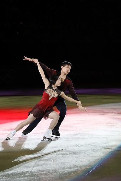 Gala exhibition at the 2018 Winter Olympics